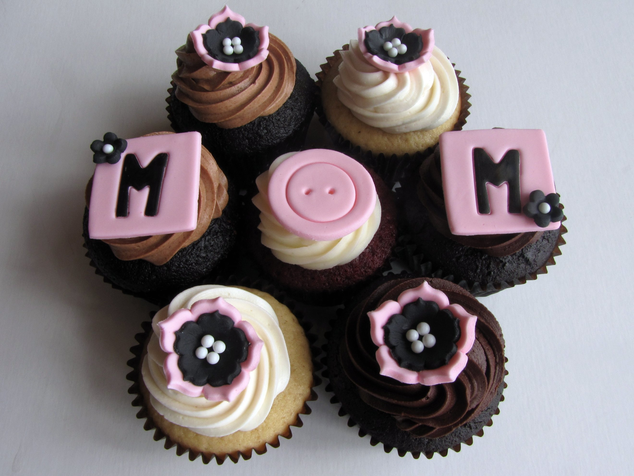 This year for Mother's Day we came up with an assortment sure to please Moms of all ages. Flavours included: - Earl Grey cupcakes with Vanilla Buttercream - Triple Chocolate Cupcakes with Chocolate Buttercream - Espresso Cupcakes with Espresso Buttercream - Red Velvet Cupcakes with Cream Cheese Icing Cupcakes were topped with handcrafted fondant "Mom" decorations with a button for the "o" and matching fondant flowers. Follow us on Twitter. Find us on Facebook.